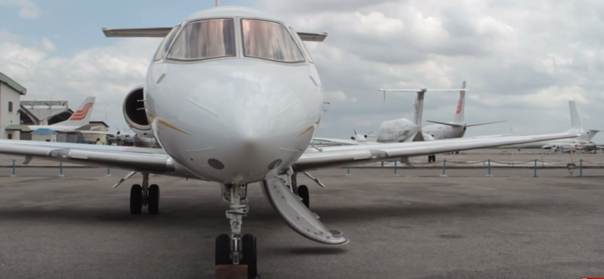 Ola Orekunrin, CEO Flying Doctors on Young CEO see title